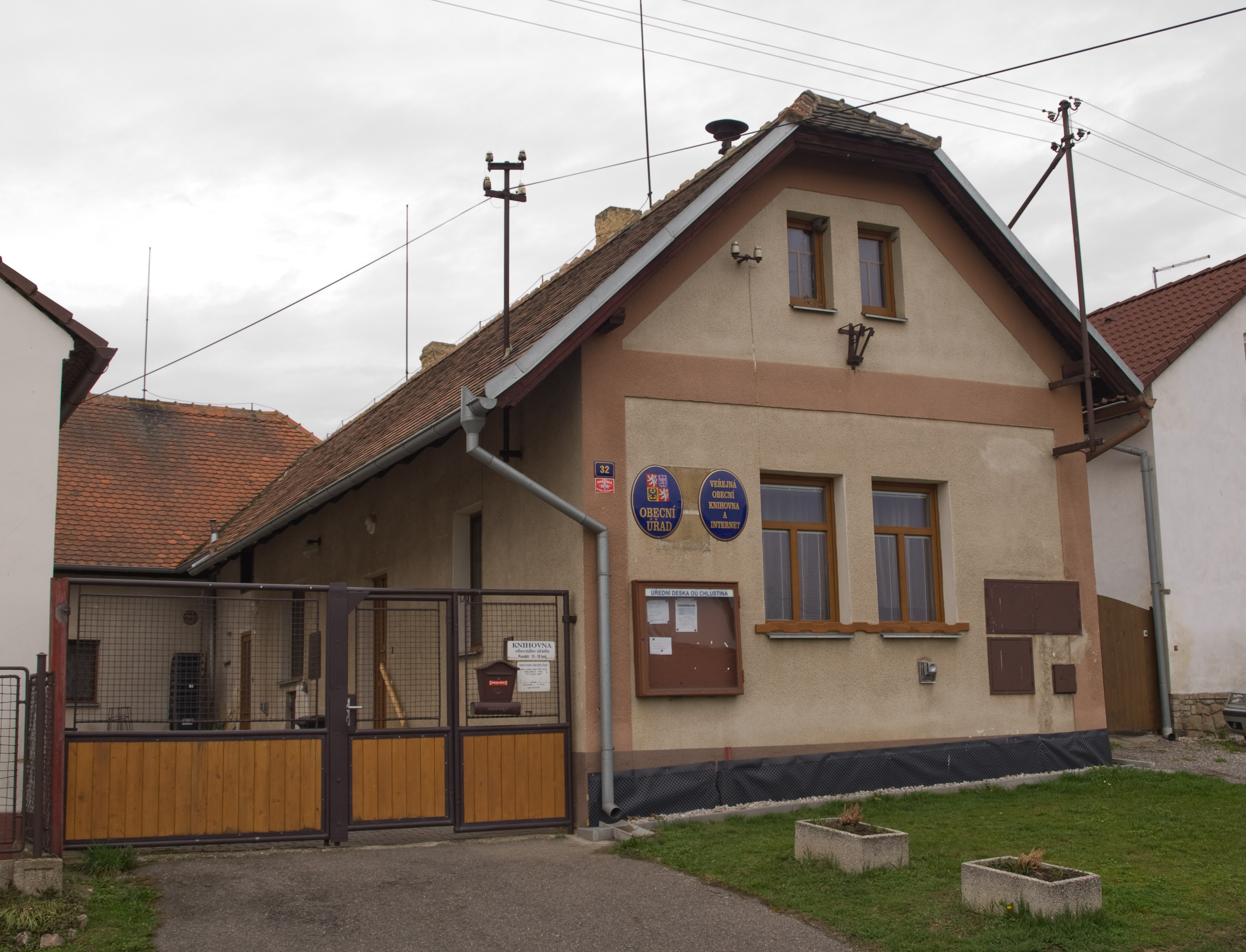 Chlustina, okres Beroun, Středočeský kraj, Česká republika